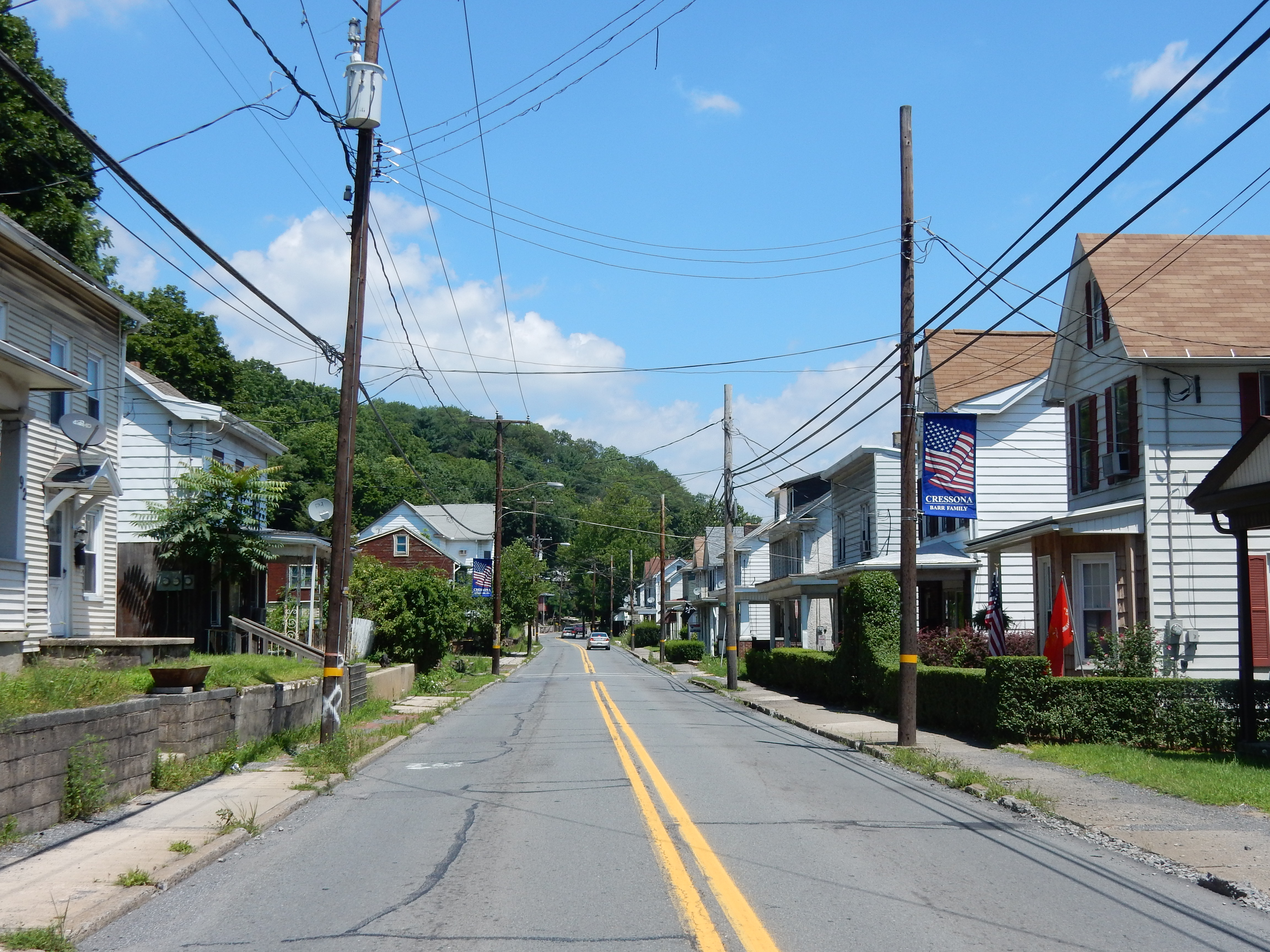 Pottsville St. (Pennsylvania Route 183), Cressona, Schuylkill County, Pennsylvania. Looking east.